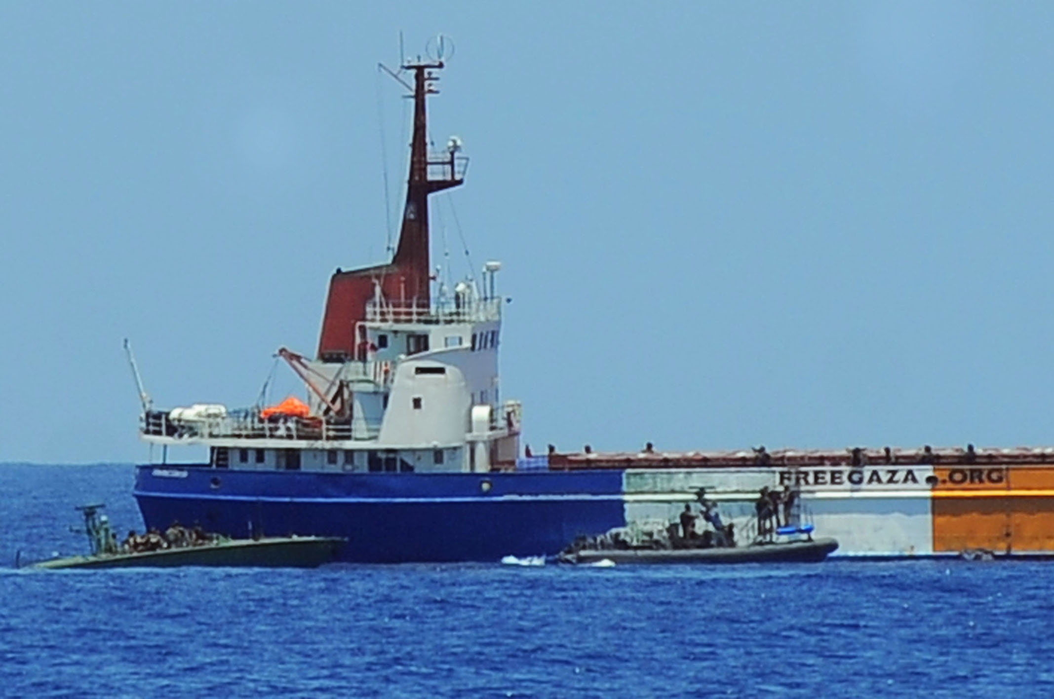 On June 5, six days after the first flotilla, a seventh boat attempted to break the maritime closure on Gaza. The Israeli navy also requested that this boat redirect to the Ashdod port, and when the captain refused, the Israeli navy boarded the ship. In this case, in contrast to the boarding of the Mavi Marmara 6, Israeli Navy soldiers boarded with the permission of the crew, and there were no incidents of violence. For video of the boarding: wp.me/ppbEs-tc